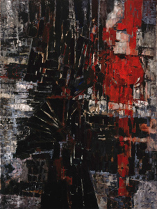 Pierre Dmitrienko, "Ferrailles", 1957, oil on canvas, 130x98cm